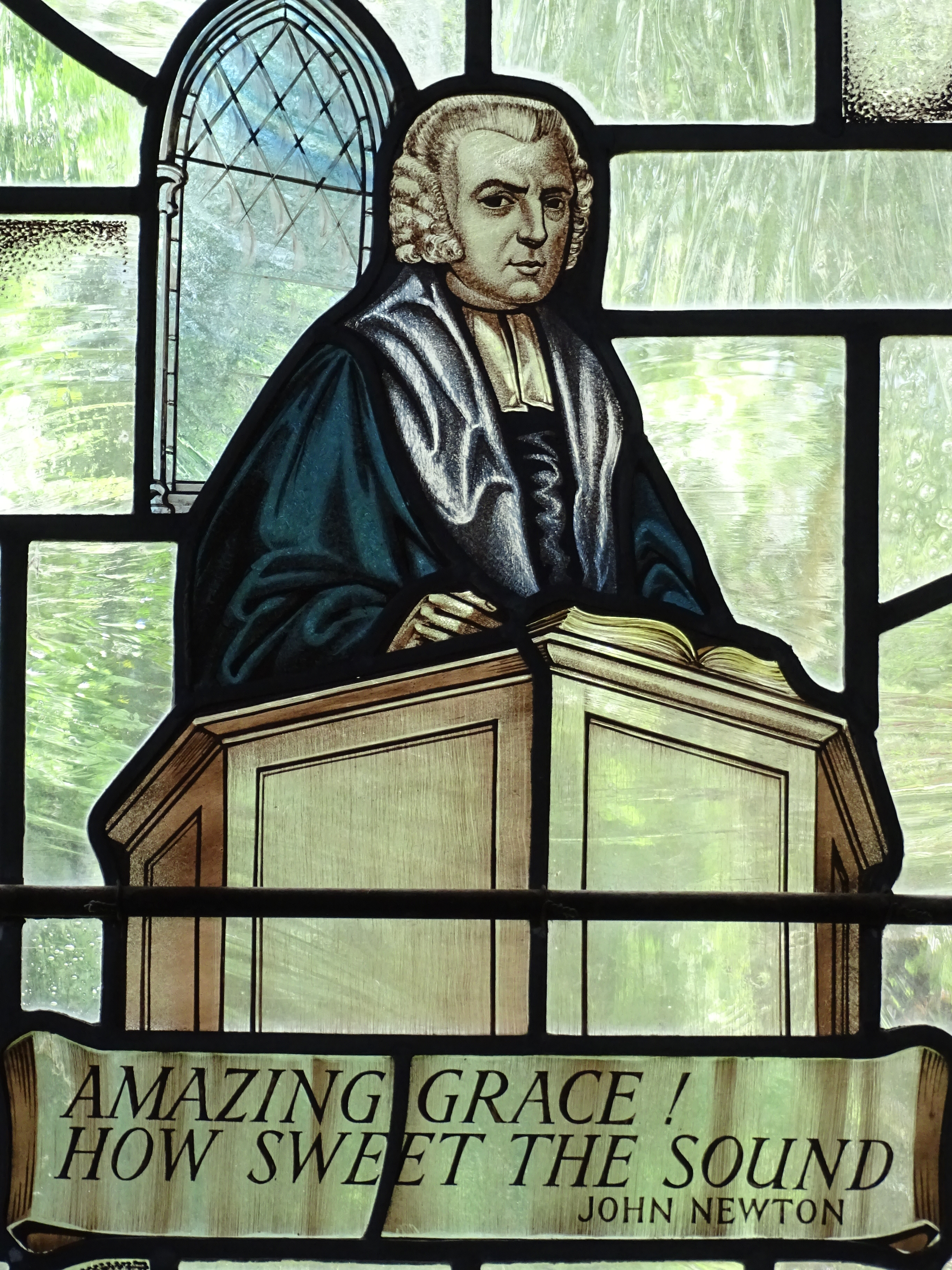 Stained-Glass Image of John Newton - Amazing Grace Writer - St. Peter and Paul Church - Olney - Buckinghamshire - England - 02